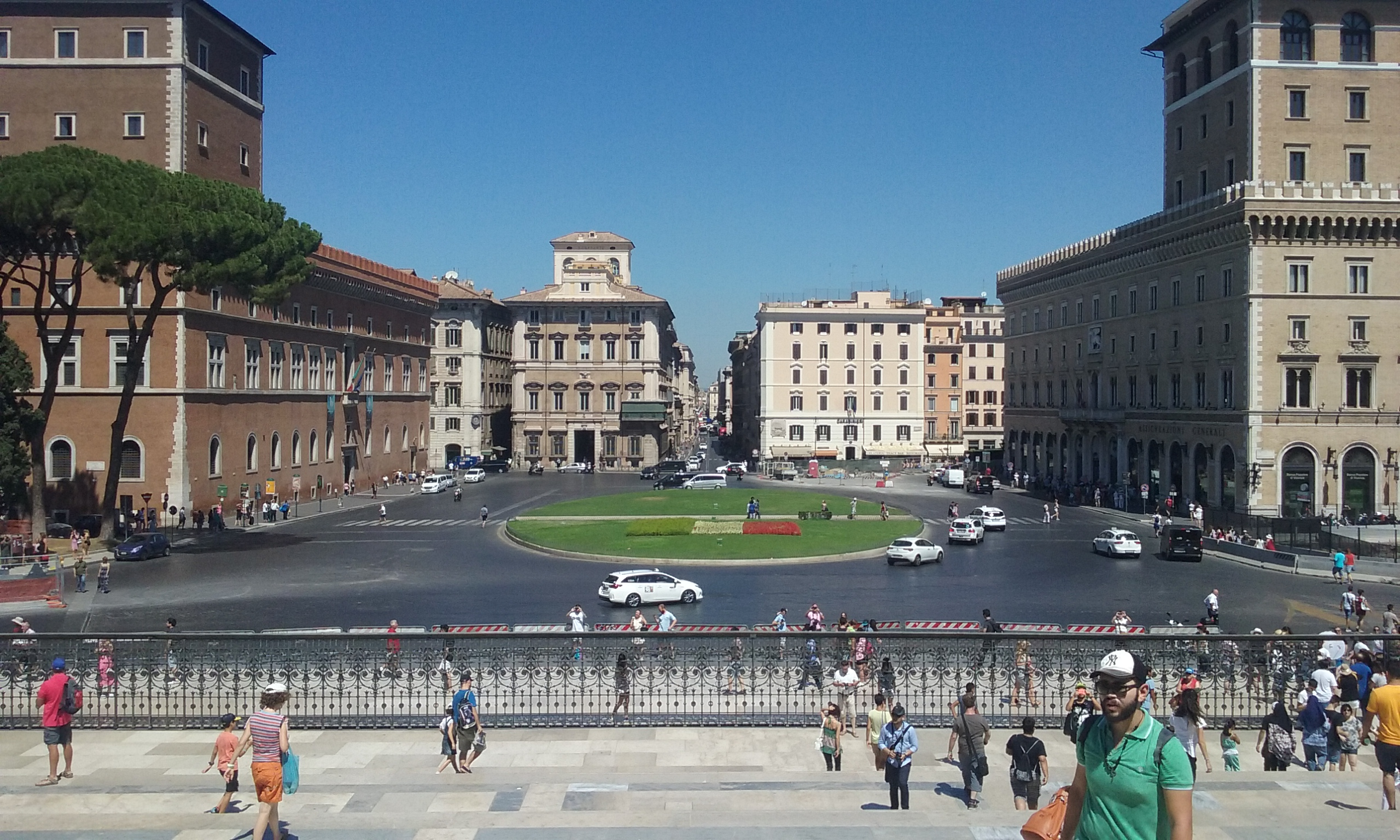 Piazza Venezia (Rome)